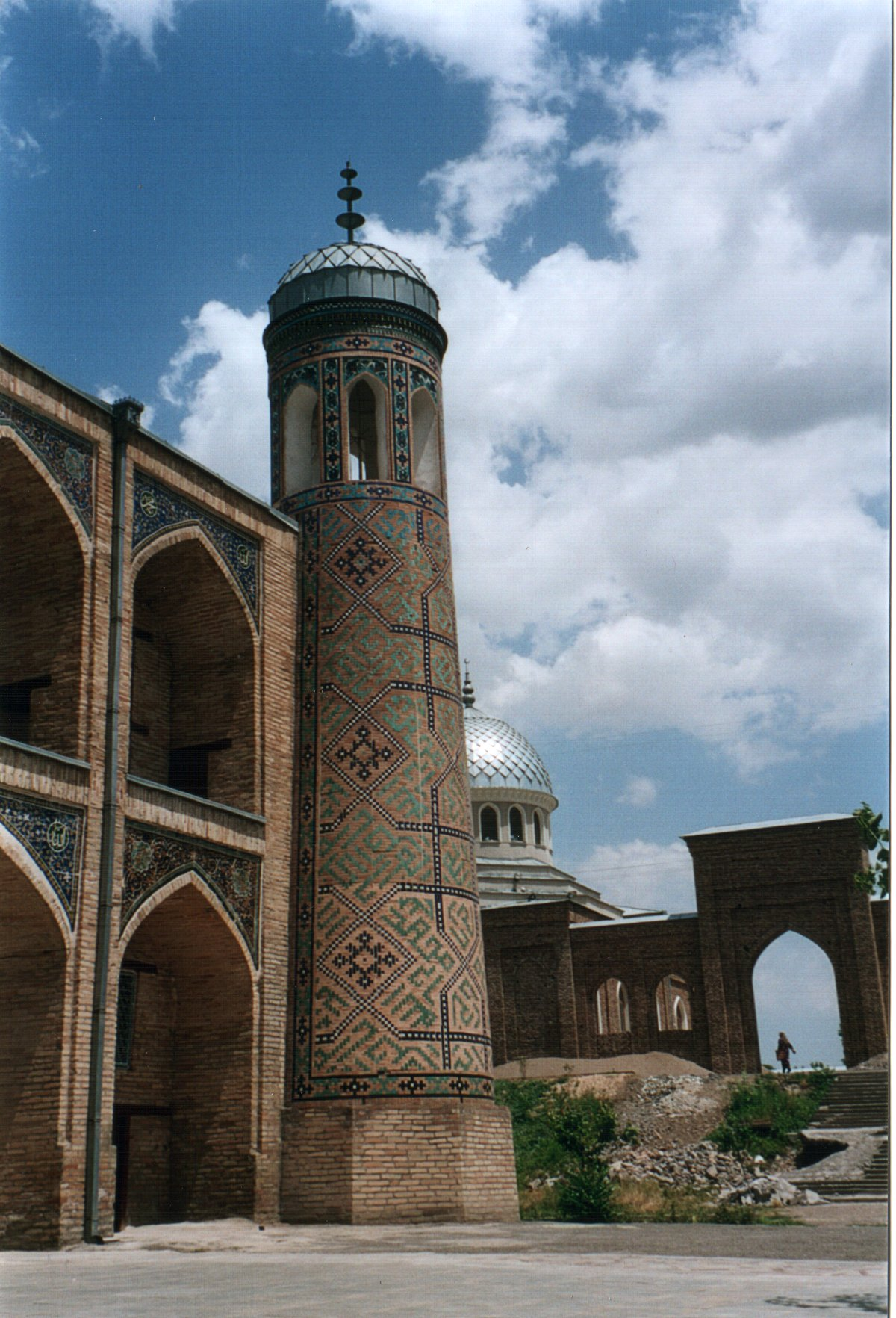 A minaret in Tashkent (Kukeldash Madrassa). I took this.